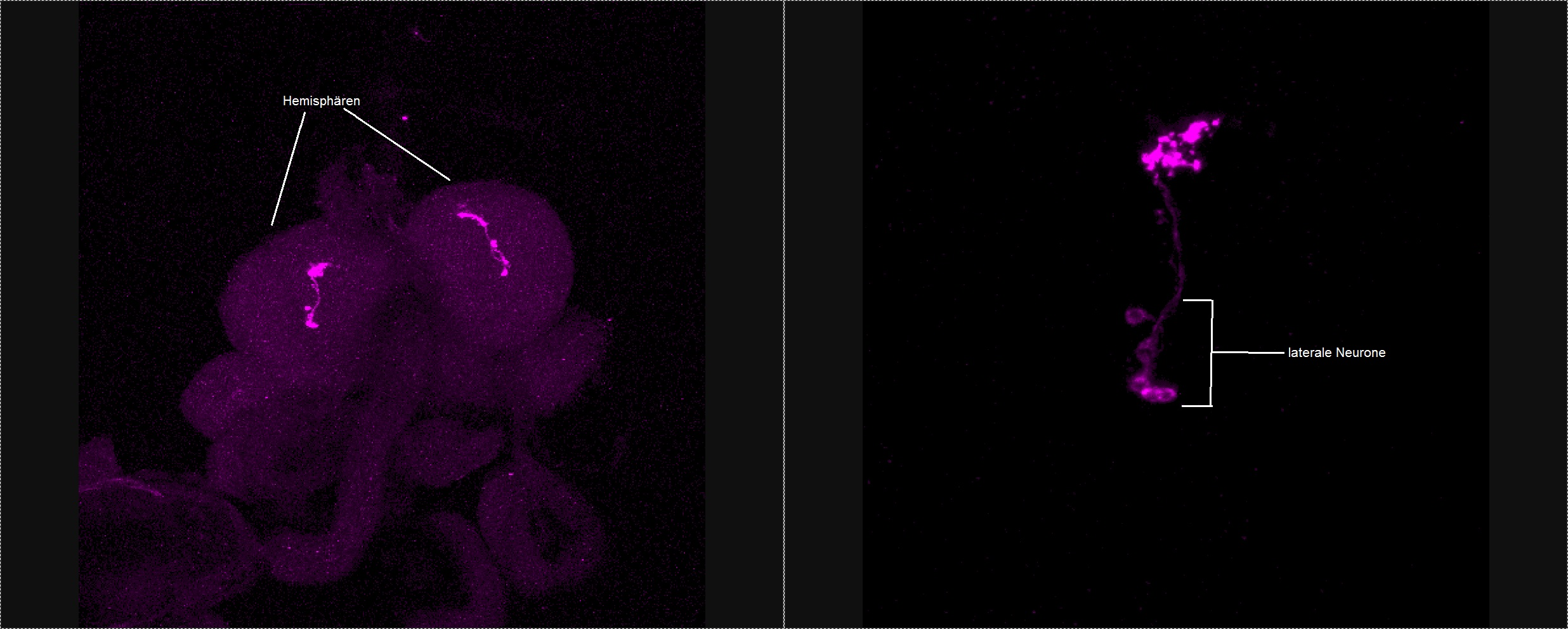 Larvengehirn; links: exprimiertes PDF in den Hemisphären von Drosophila(hier magenta eingefärbt mit Antikörperfärbung (PDFc7)), rechts: exprimiertes PDF in den LN, normalerweise exprimieren nur 4 LN PDF, hier sind ausnahmsweise 5 PDF-exprimierende LN zu erkennen.